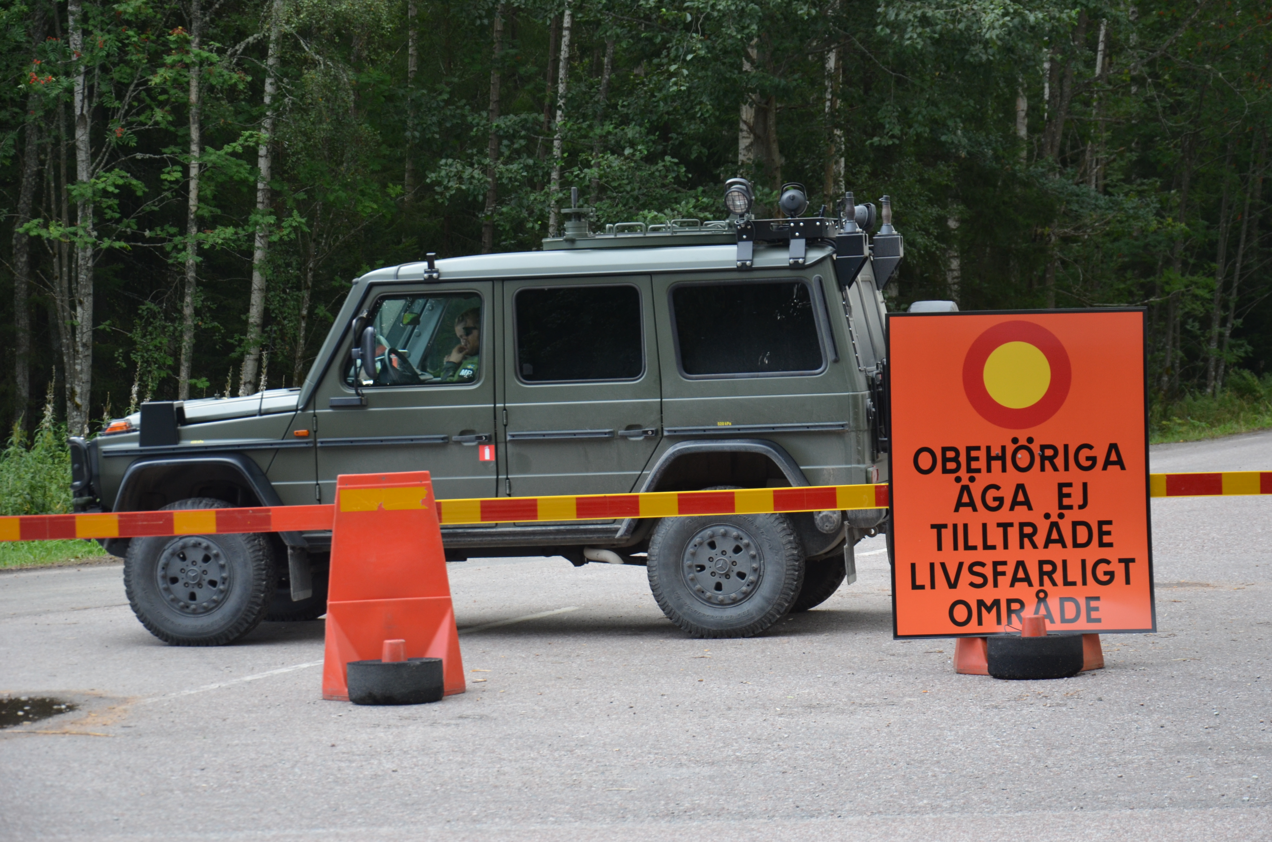 Military police post at wild fire area, Norberg